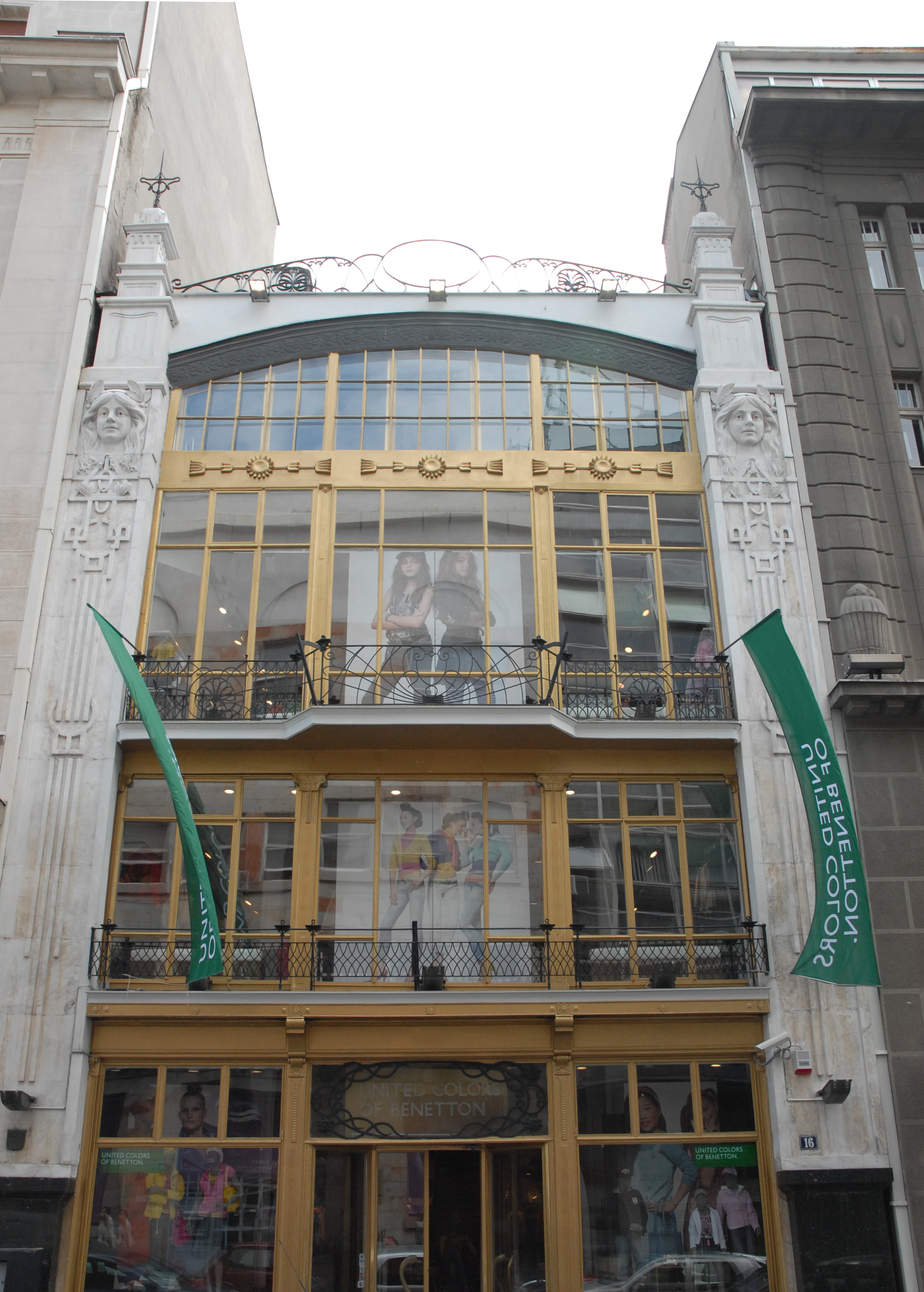 United colors of Benetton store in Belgrade, King Petar's street, Serbia. Česky: Prodejna United colors of Benetton v Bělehradě, ulice Krále Petra, Srbsko.